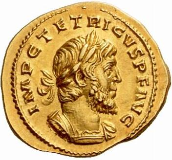 Tetricus I, 271-274, Aureus, Cologne or Treveri 272, AV 4.79 g. IMP C TETRICVS P F AVG Laureate and cuirassed bust r., with drapery on far shoulder. Calicó 3887 (this coin). C 128 var. Schulte 29. RIC 5.